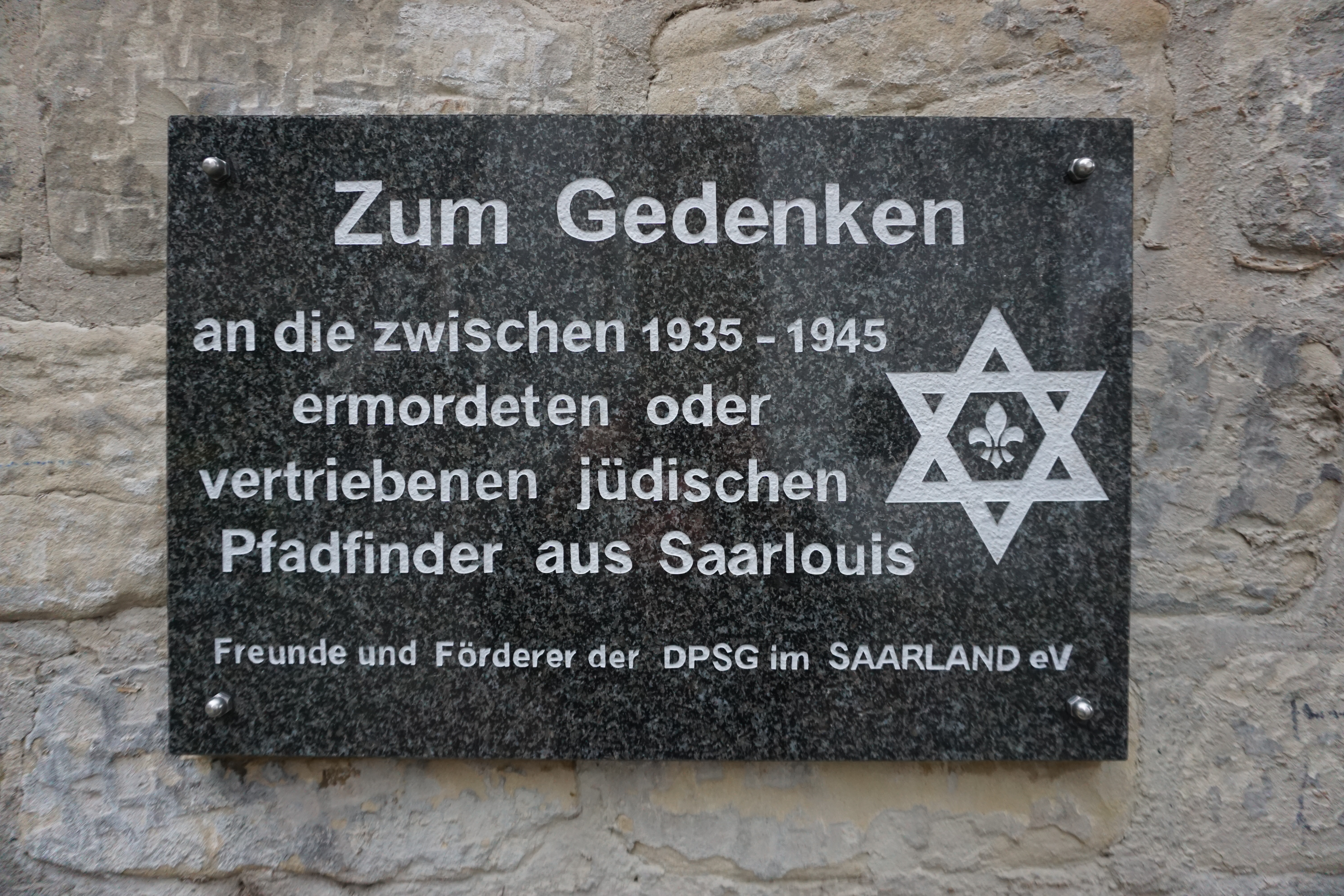 The memorial plaque is located on the wall opposite the former synagogue in Postgässchen 6 and was erected in August 2019 during a small ceremony.